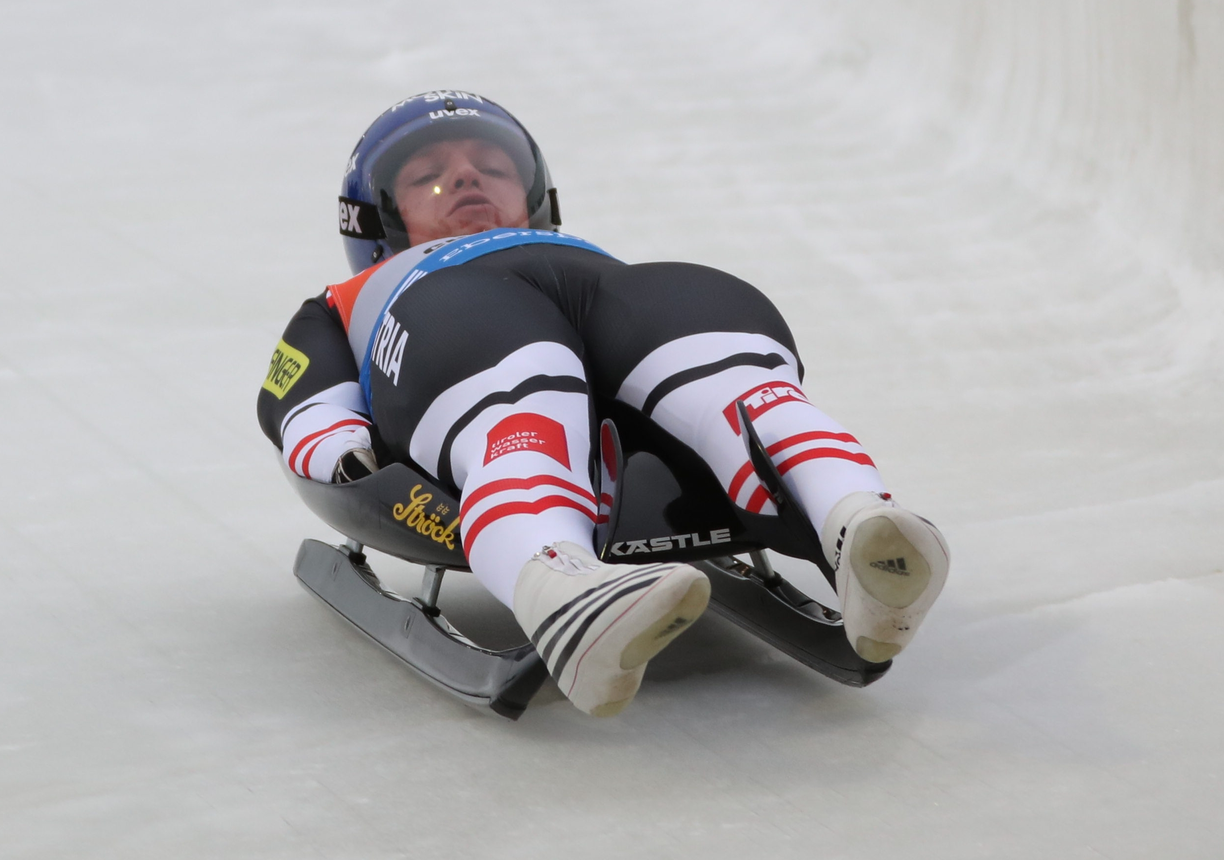 Luge World Cup Men in Winterberg